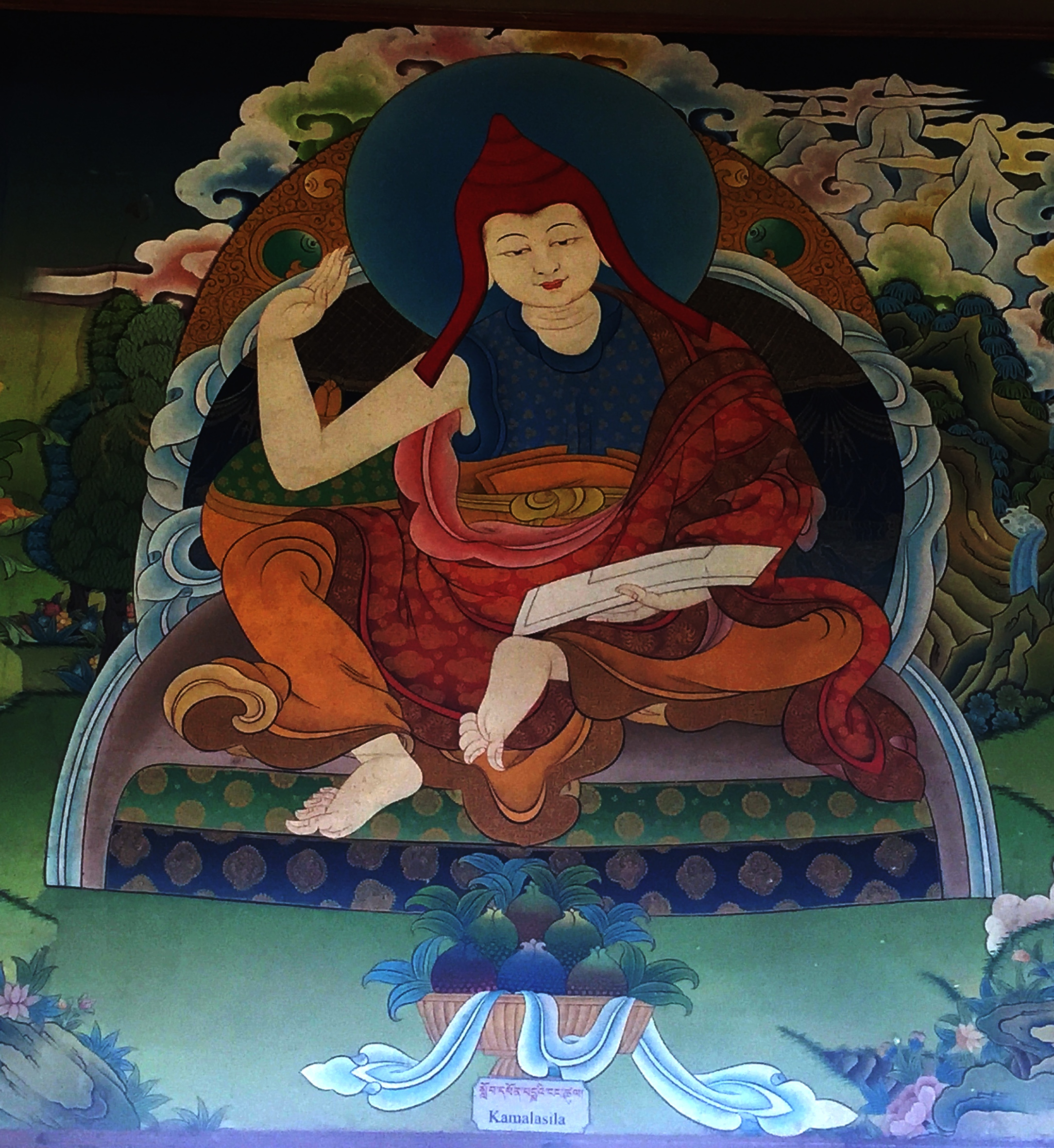 Kamalashila, the 12th abbot of Nalanda University, India